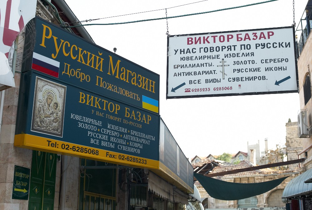 Couple of Russian shops in Jerusalem